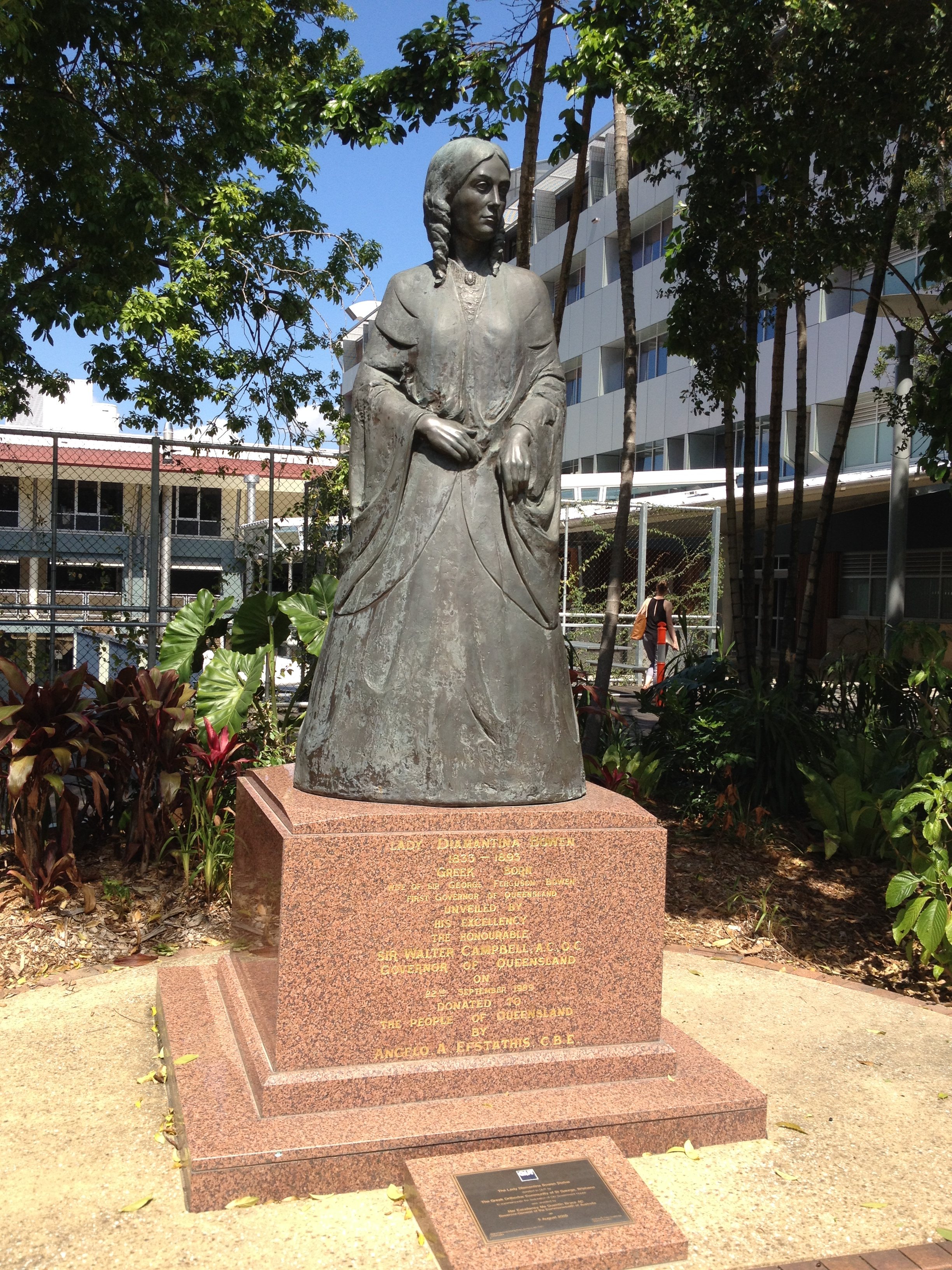 The Lady Diamantina Bowen statue by Phillip Piperides (2009) in the gardens of the Old Government House, Brisbane